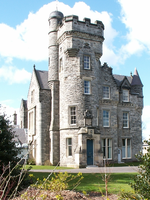 Wardlaw Wing, St Andrews. Wardlaw Wing of University Hall just off Kennedy Gardens